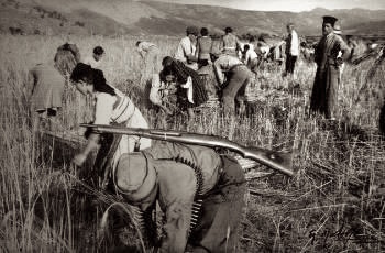 Greek peasants and partisans in the “Battle for the harvest” 1943-1944